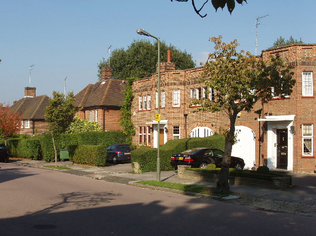 Hampstead Garden Suburb Original description: Litchfield Way, Hampstead Garden Suburb Hampstead Garden Suburb was set up in 1907 by Dame Henrietta Barnett to be a joint co-operative endeavour by a group of like-minded citizens, similar to Letchworth Garden City. For history see Link .